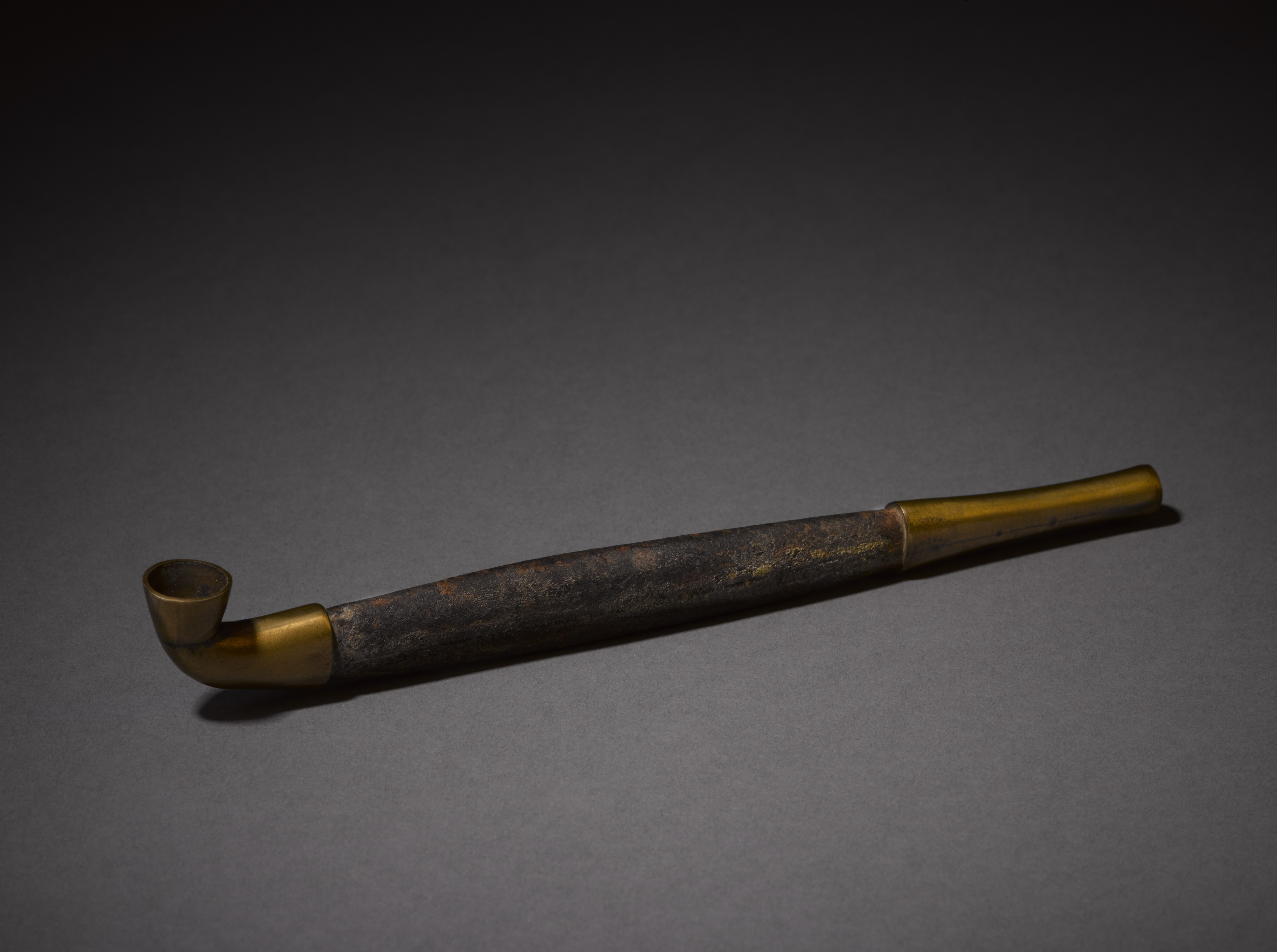 This type of Japanese pipe is used to smoke Kizami, a finely shredded tobacco product. This object is currently housed in the Oxford College Archives of Emory University.